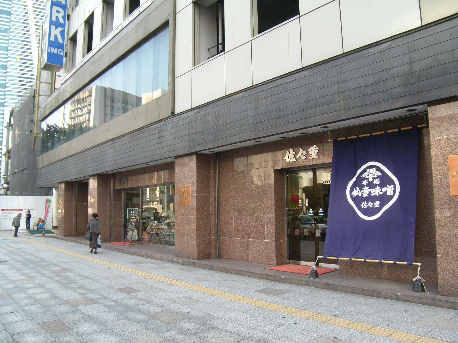 Sasajū shop. A traditional miso shop in Sendai. Ichibanchō 3 chōme, Aoba ward, Sendai, Miyagi prefecture, Japan. From the Higashi-ni-banchō (Second East Town) Avenue toward southwest.